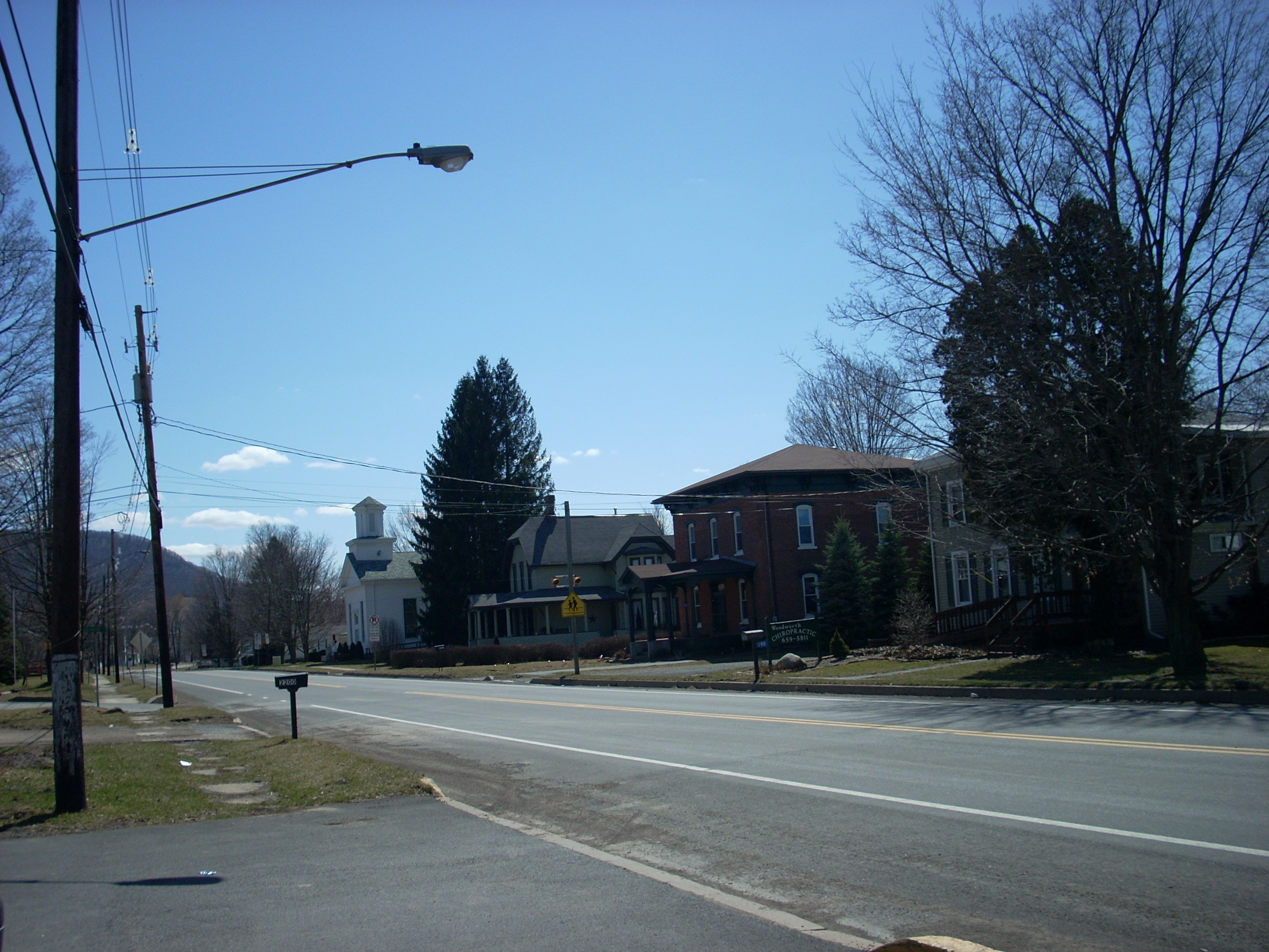 Old Route 15 in Putnam Towship